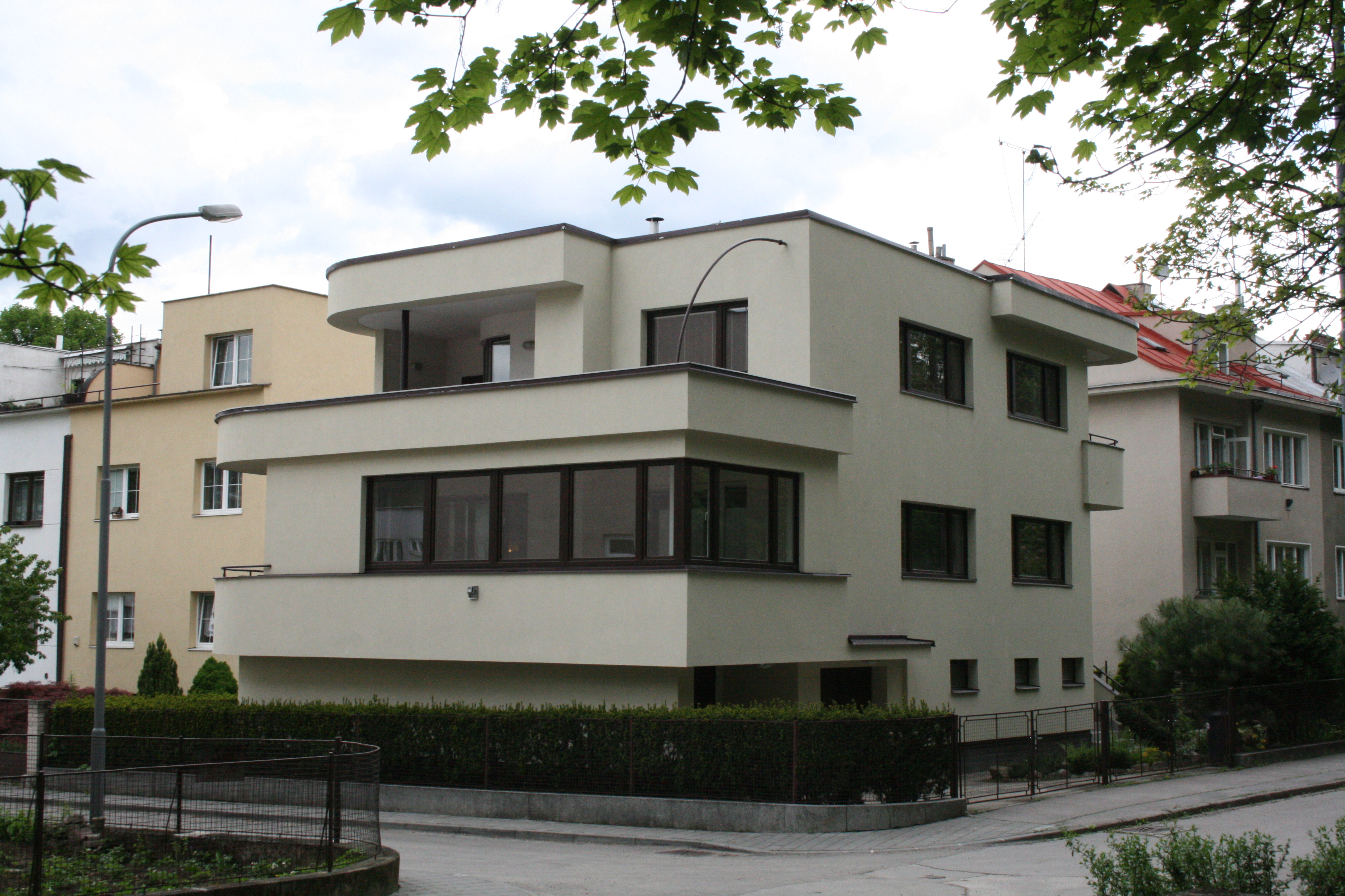 "Nový dům" (New House) settlement - 16 functionalist houses built in 1928 on occasion of an annual exhibition of contemporary culture, Brno, Czech Republic.